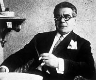 Milan Begović, Croatian writer